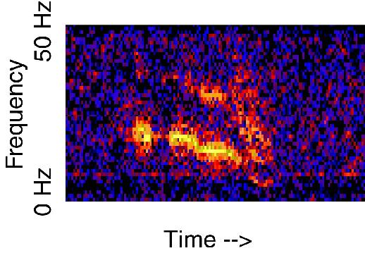 A spectrogram of the mystery sound "Julia" recorded by the NOAA hydrophone array in 1999. Original source is here